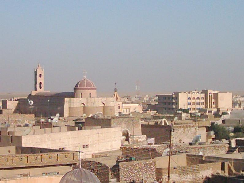 Village of Bakhdida